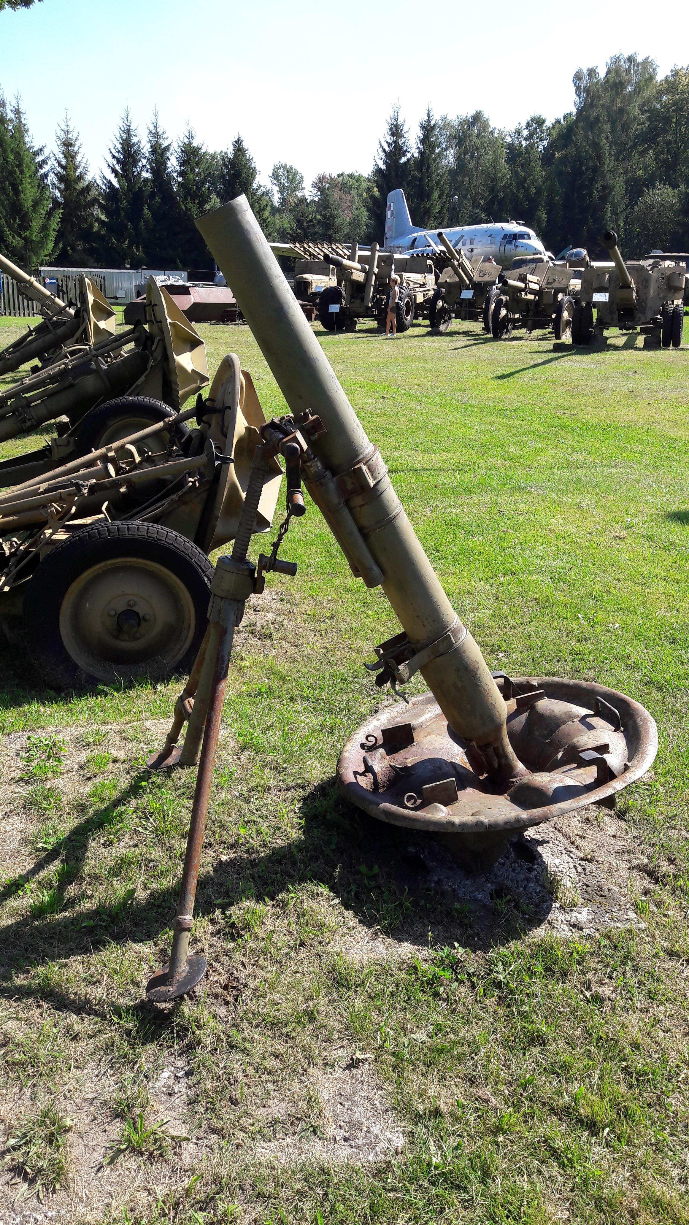 107mm M1938 mortar, side view